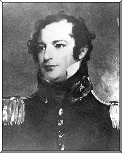 Colonel Walker Keith Armistead, Chief Engineer (1785 – 1845)